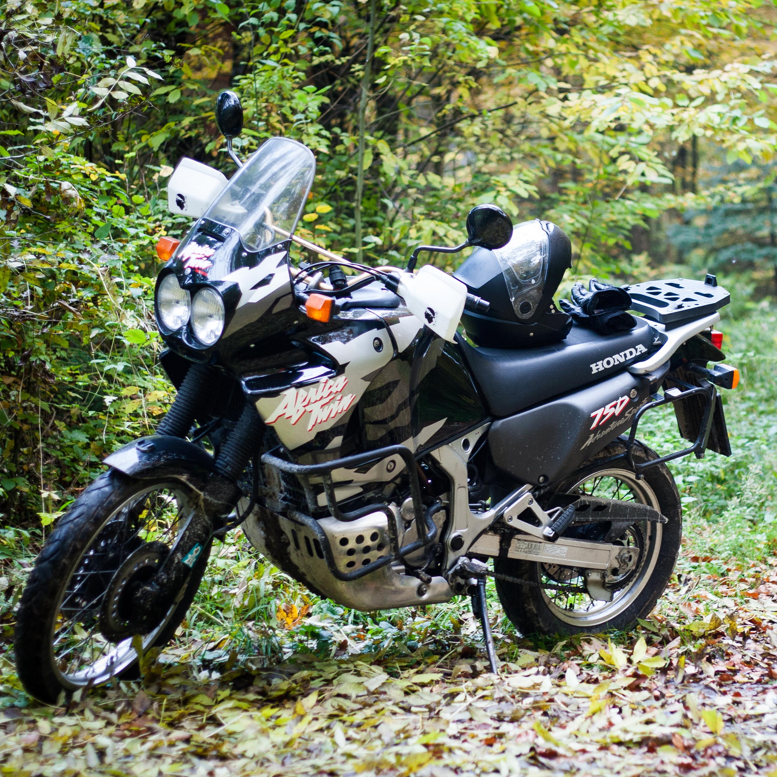 Picture of a Honda XRV750 on the side of a road in the forest in Lower Austria